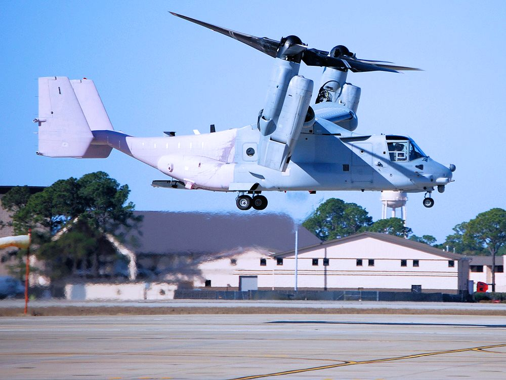 A CV-22 Osprey from the 413th FLTS hovers over Hurlburt Field during a fuel jettison test mission. The back half of the aircraft is coated with a substance that shows where the fuel has made contact. Photo: USAF / Thomas Cooper